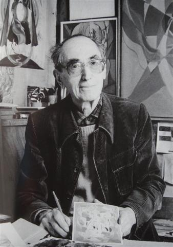 Portrait of R.M.Burlet